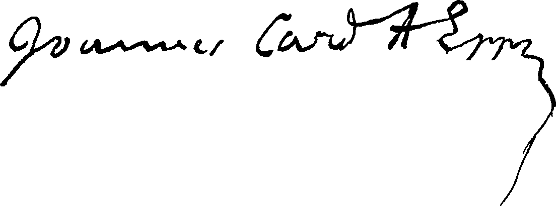 signature of Keresztelő János Scitovszky, archbishop of Esztergom.